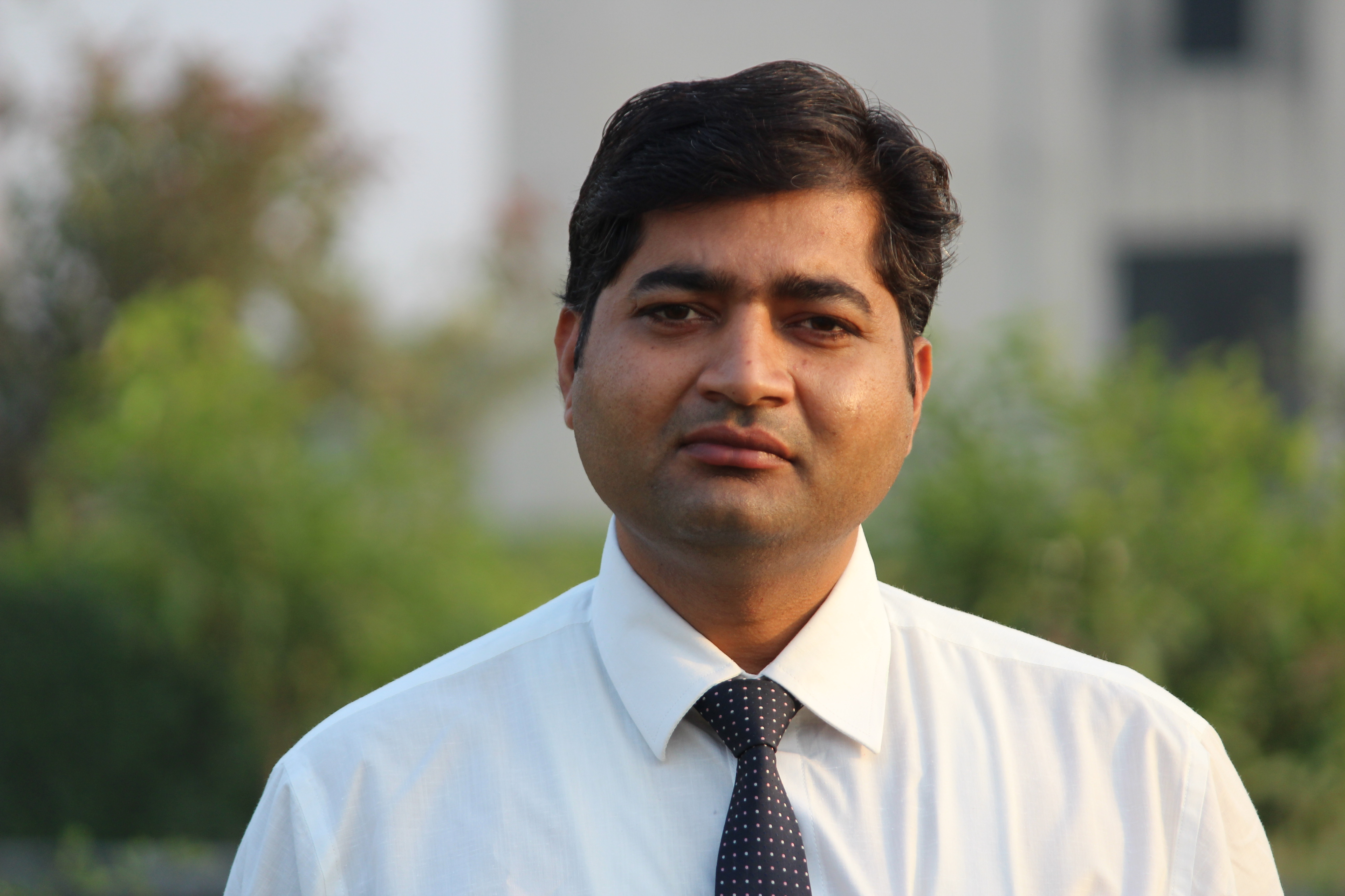 Dr. Raj Kumar, Head, Department of Law, Jagan Nath University, Bahadurgarh, Haryana